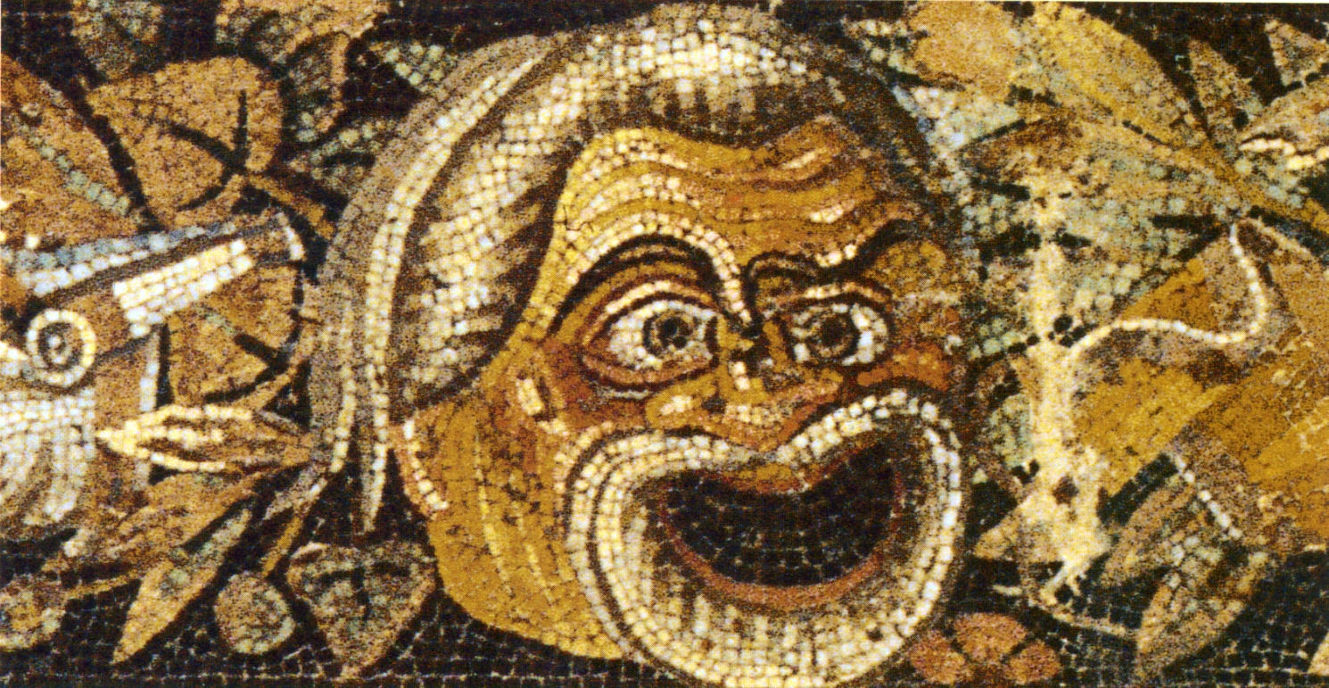 Comedy mask (detail of the mosaic of Eros-Bacchus on the tiger) Roman mosaic from the Casa del Fauno (VI 12, 2-5) in Pompeii. Museo Archeologico Nazionale (Naples), inv. nr. 9991